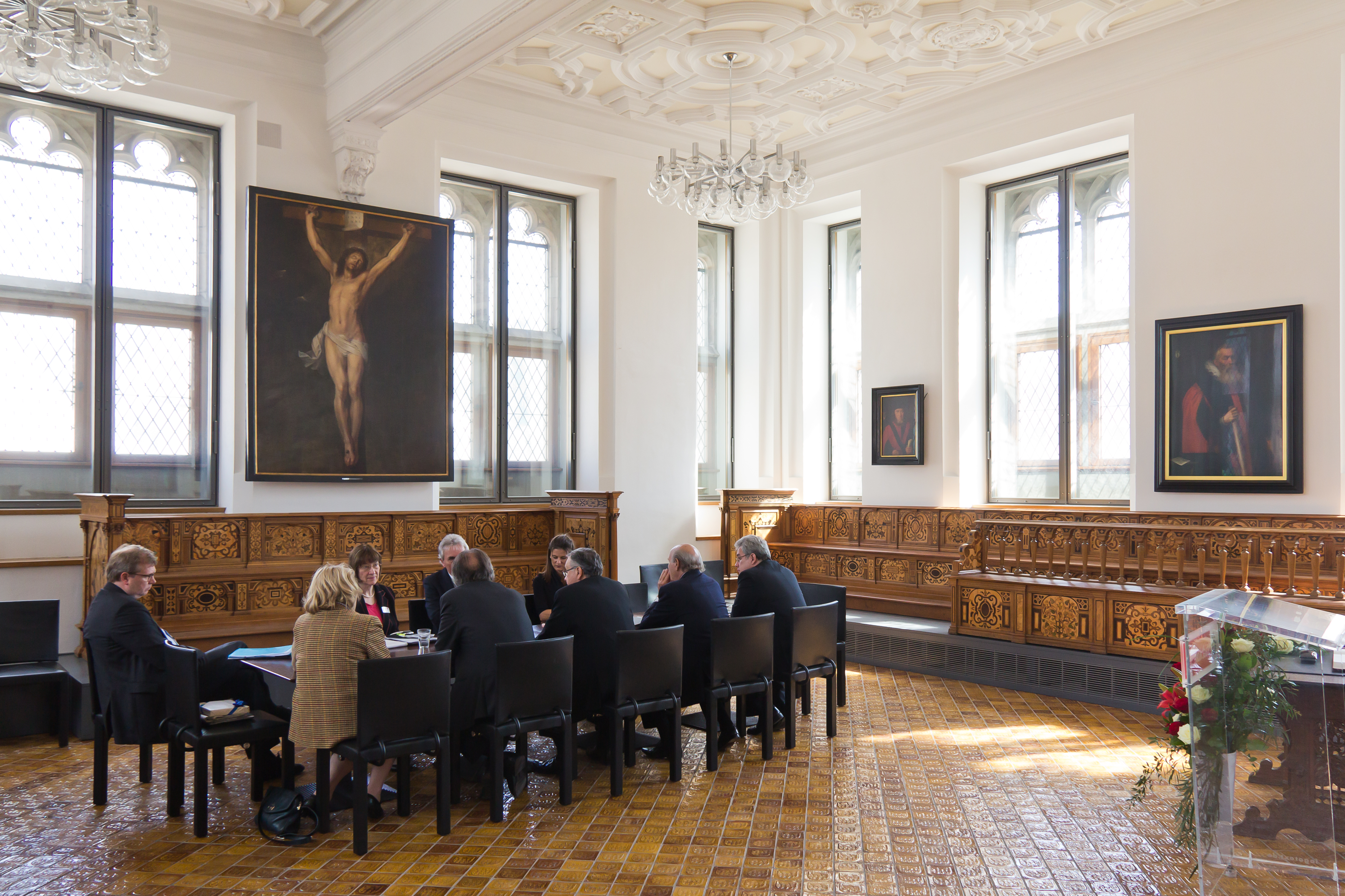 Reception of the Ambassador of Colombia and Peru, Juan Mayr Maldonado and José Antonio Meier Espinosa, by Mayor Jürgen Roters in the town hall of Cologne.